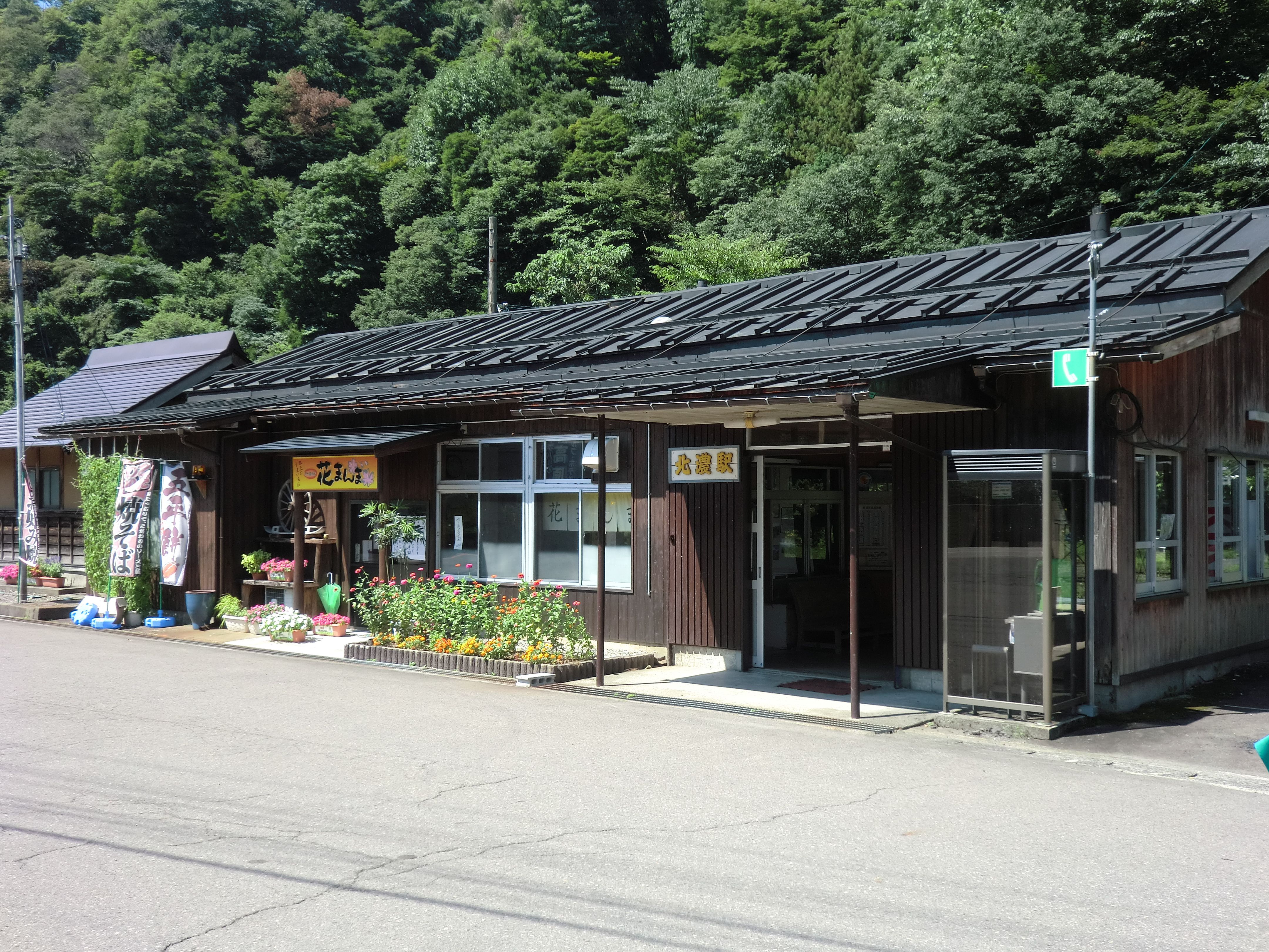 Nagaragawa Railway Hokuno Station